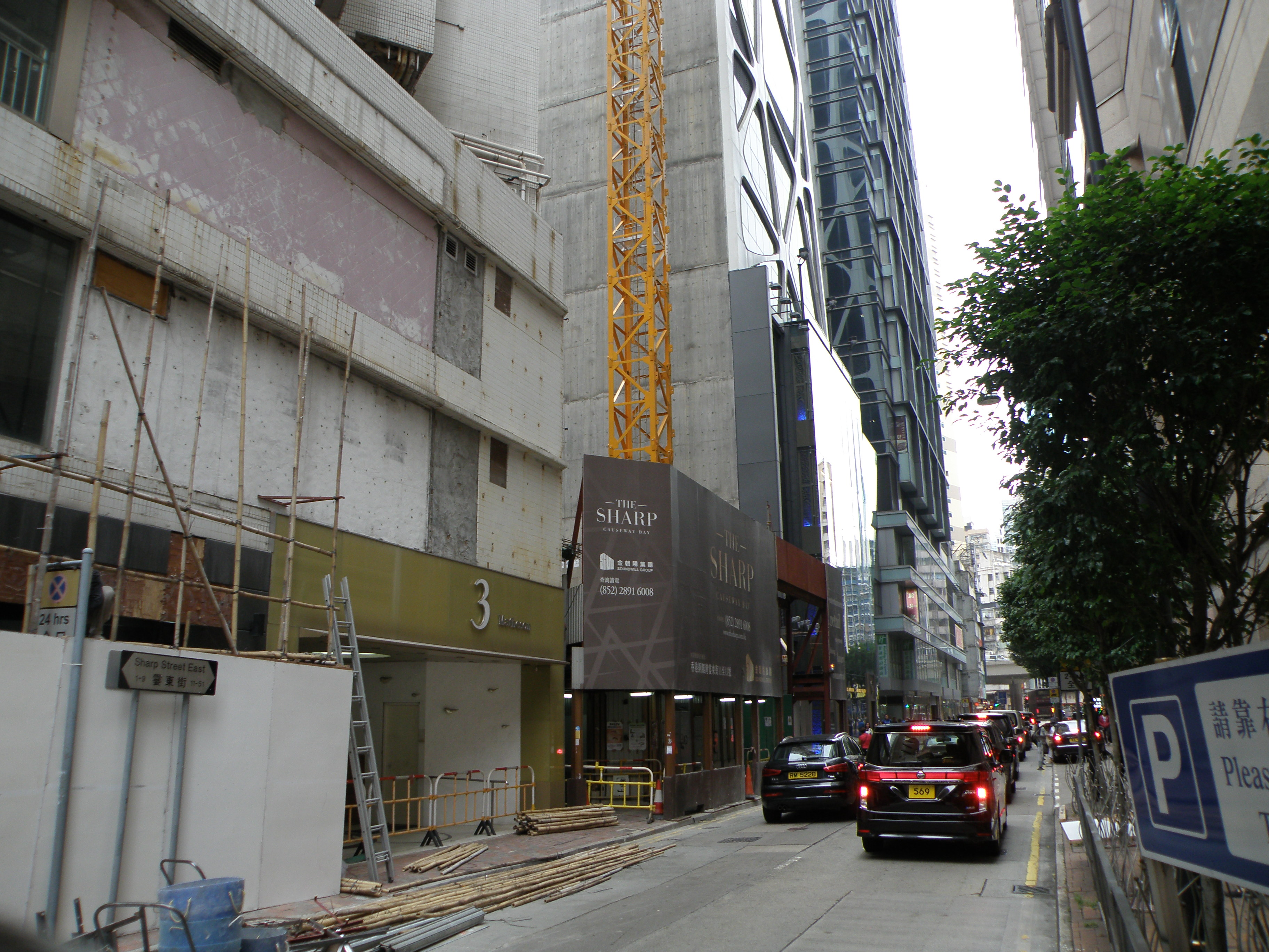 Sharp Street East in Causeway Bay, Hong Kong.